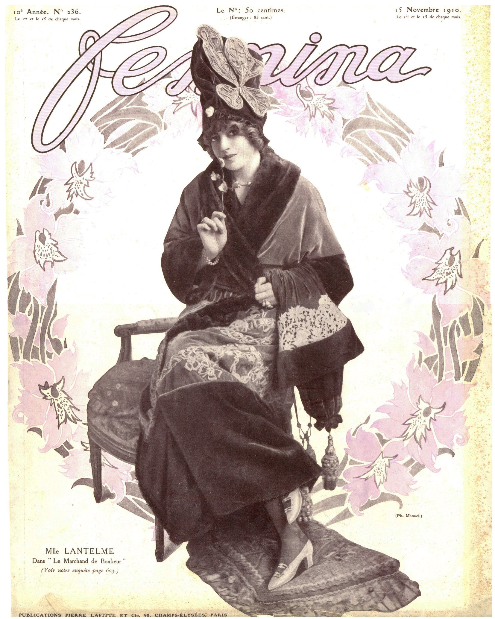 Cover of a "Femina" (French magazine).